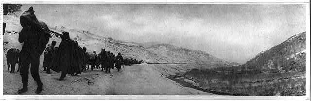 Everything destroyed and burnt. Men only remained. Photograph shows men and horses marching along a snowy road, probably in Albania.